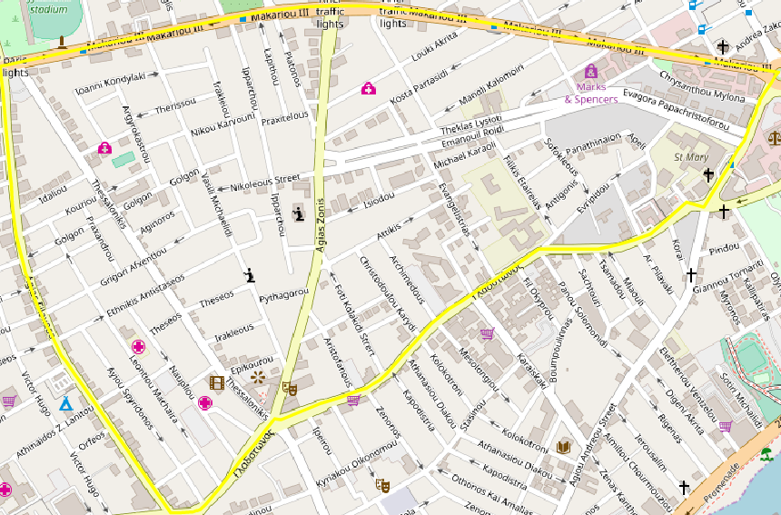 Map of Agia Zoni.